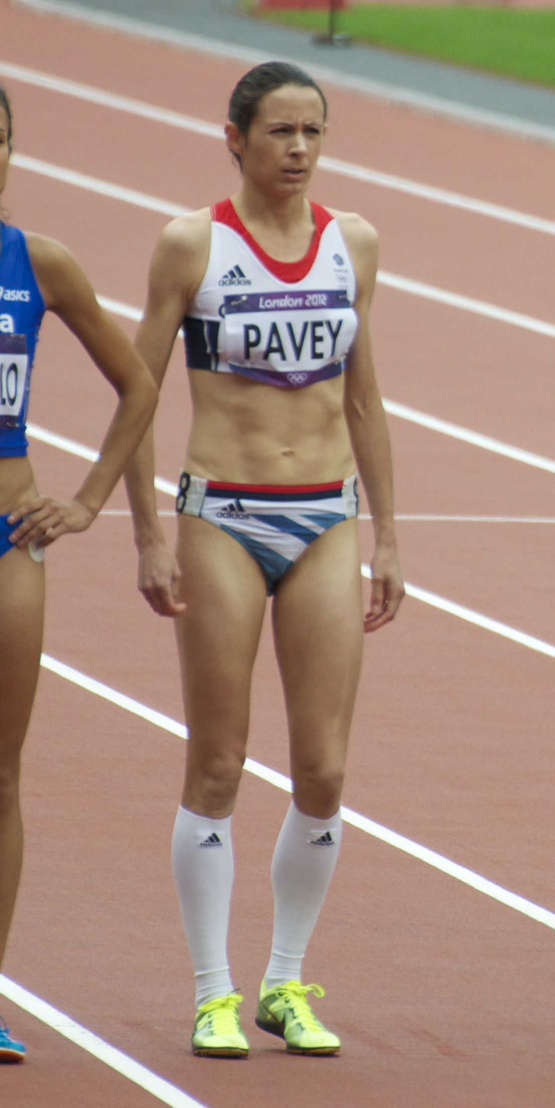 Women's 5000m, Elena Romagnolo, Joanne Pavey, Yelena Nagovitsyna, Vivian Jepkemoi Cheruiyot, Kim Conley